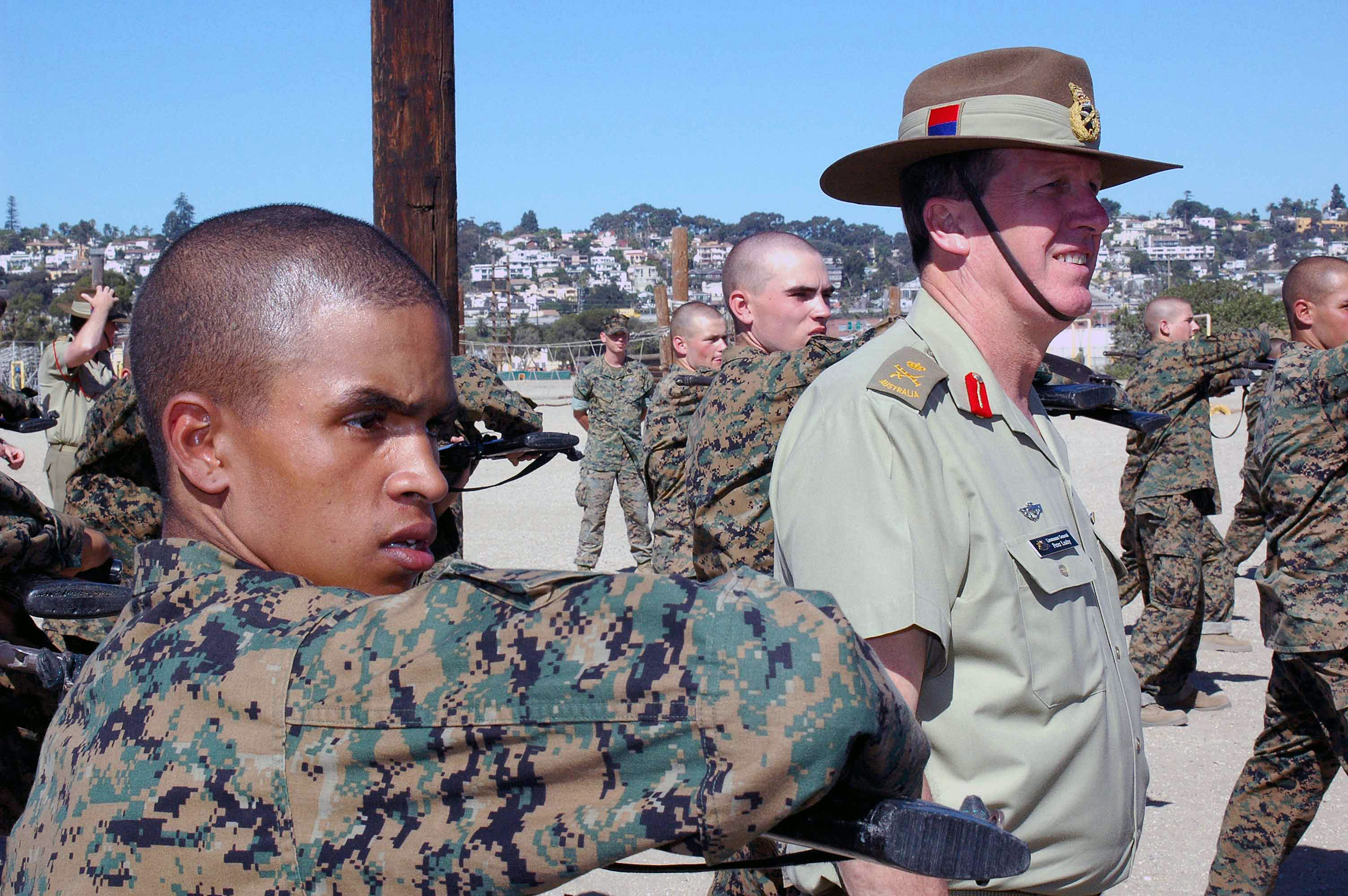 Australian Army (RA) Lieutenant General (LGEN) Peter Leahy, Chief of the (RA), walks among US Marine Corps (USMC) Retruits during rifle and bayonet, during his visit at Marine Corps Recruit Depot (MCRD) San Diego, California (CA).